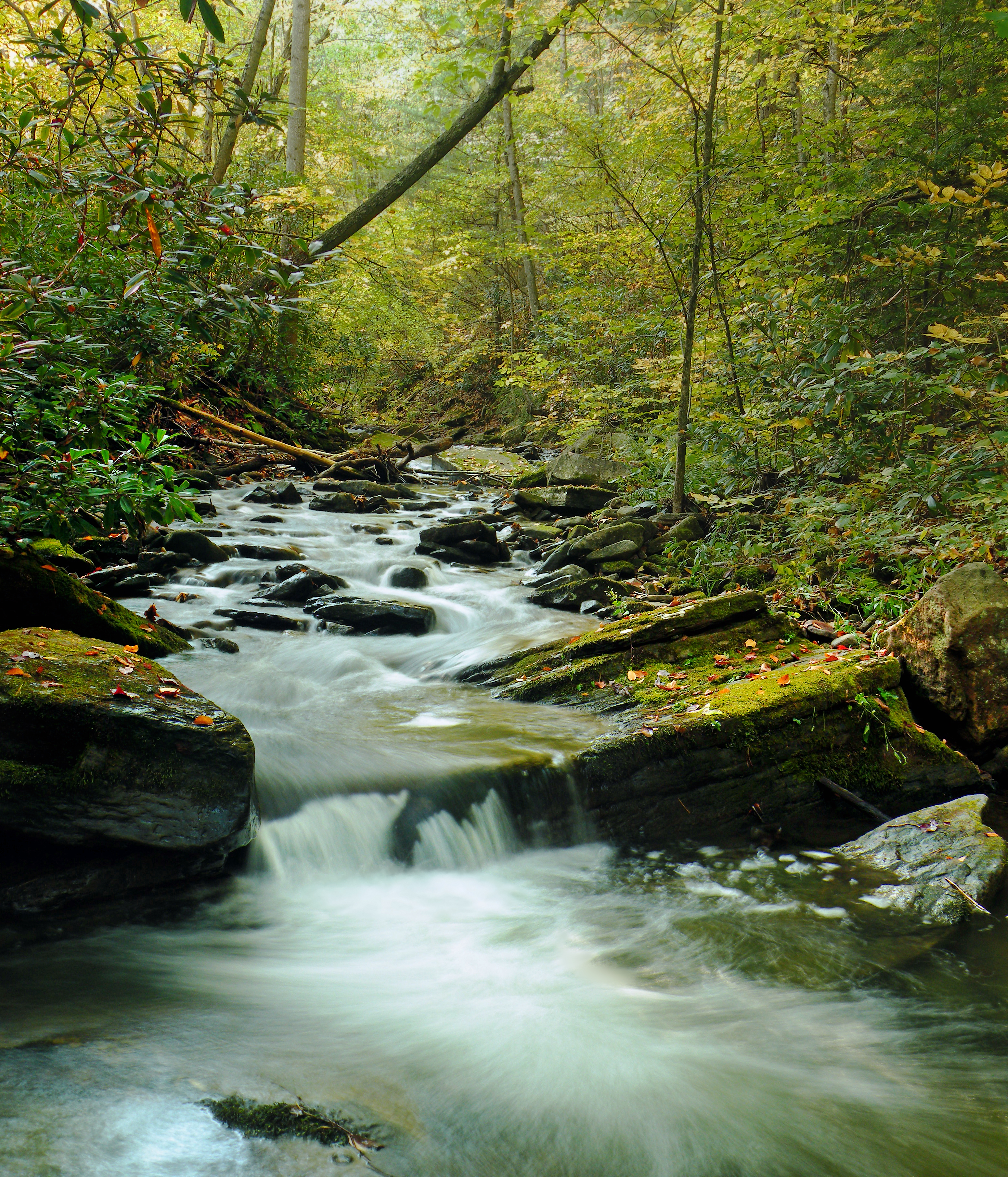 Upper Pine Bottom Run, Lycoming County, within Upper Pine Bottom State Park. En route to Pine Creek, Upper Pine Bottom Run cascades down the steep Allegheny Front in a scenic hemlock- and rhododendron-filled ravine.